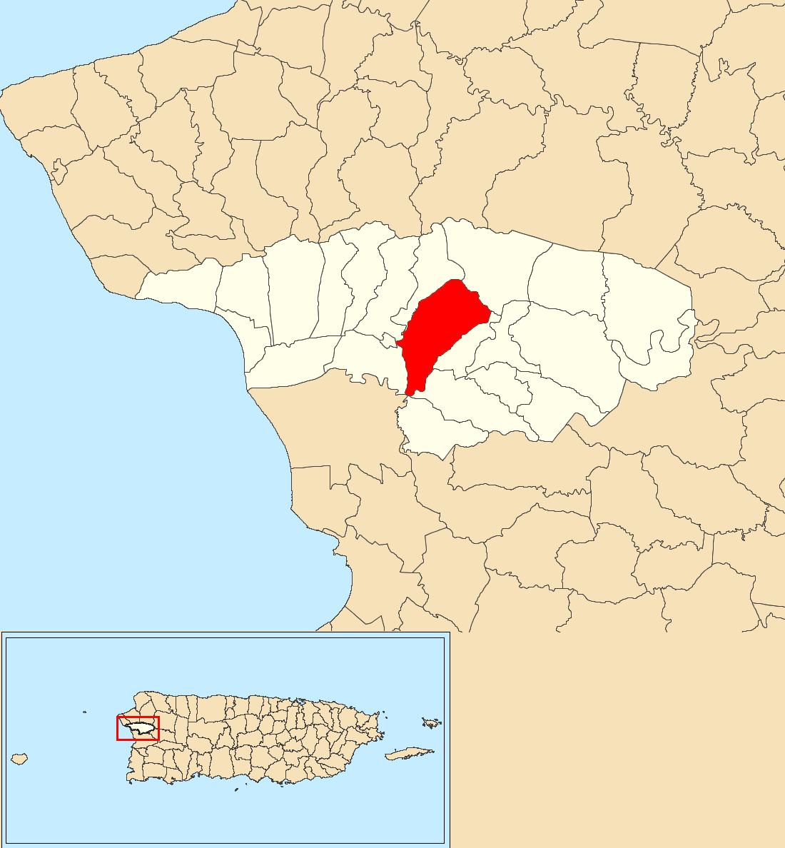 Carreras, Añasco, Puerto Rico locator map